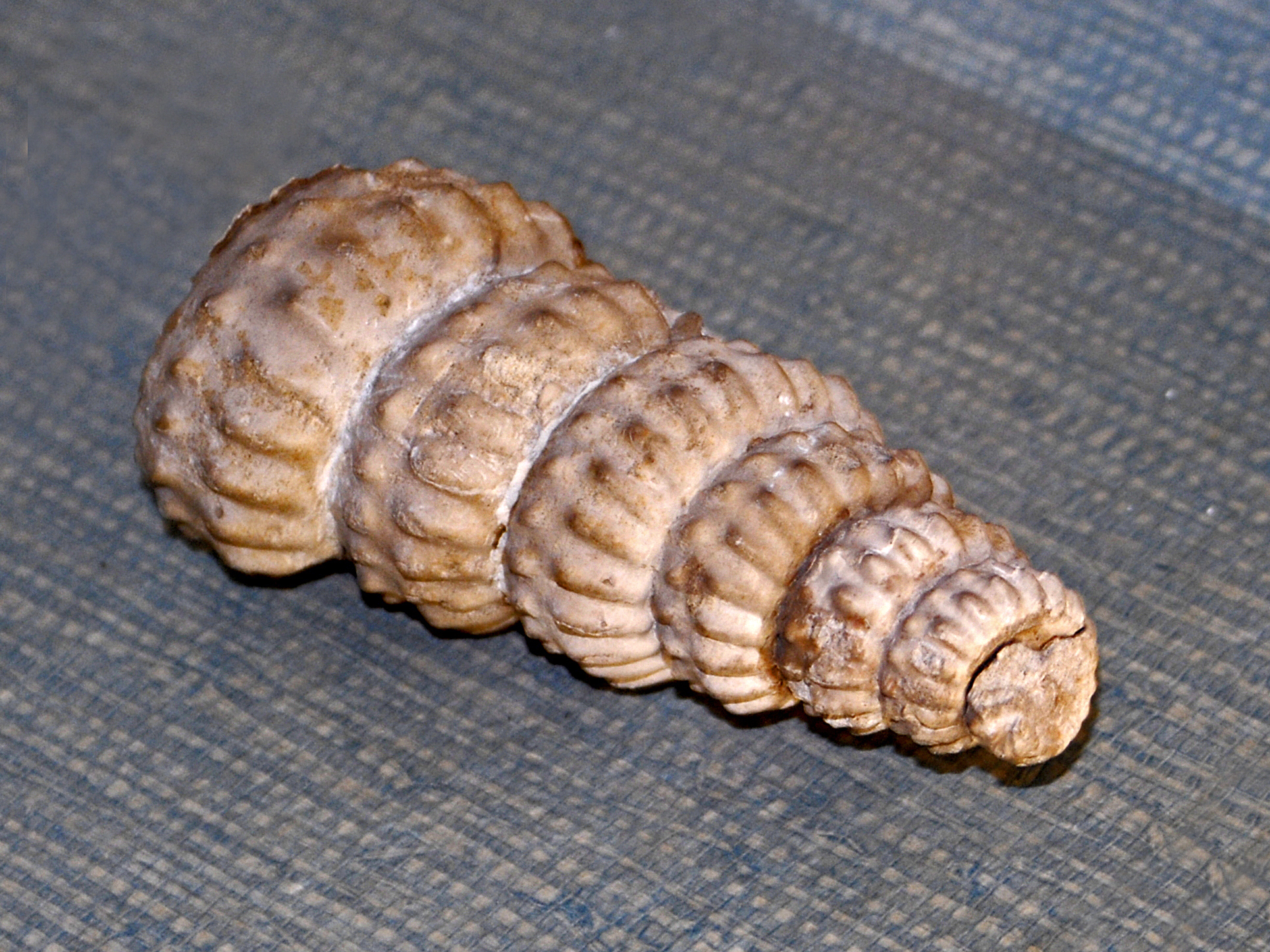 Turrilites costatus from Rouen, France, on display at Gallery of Paleontology and Comparative Anatomy, Paris.